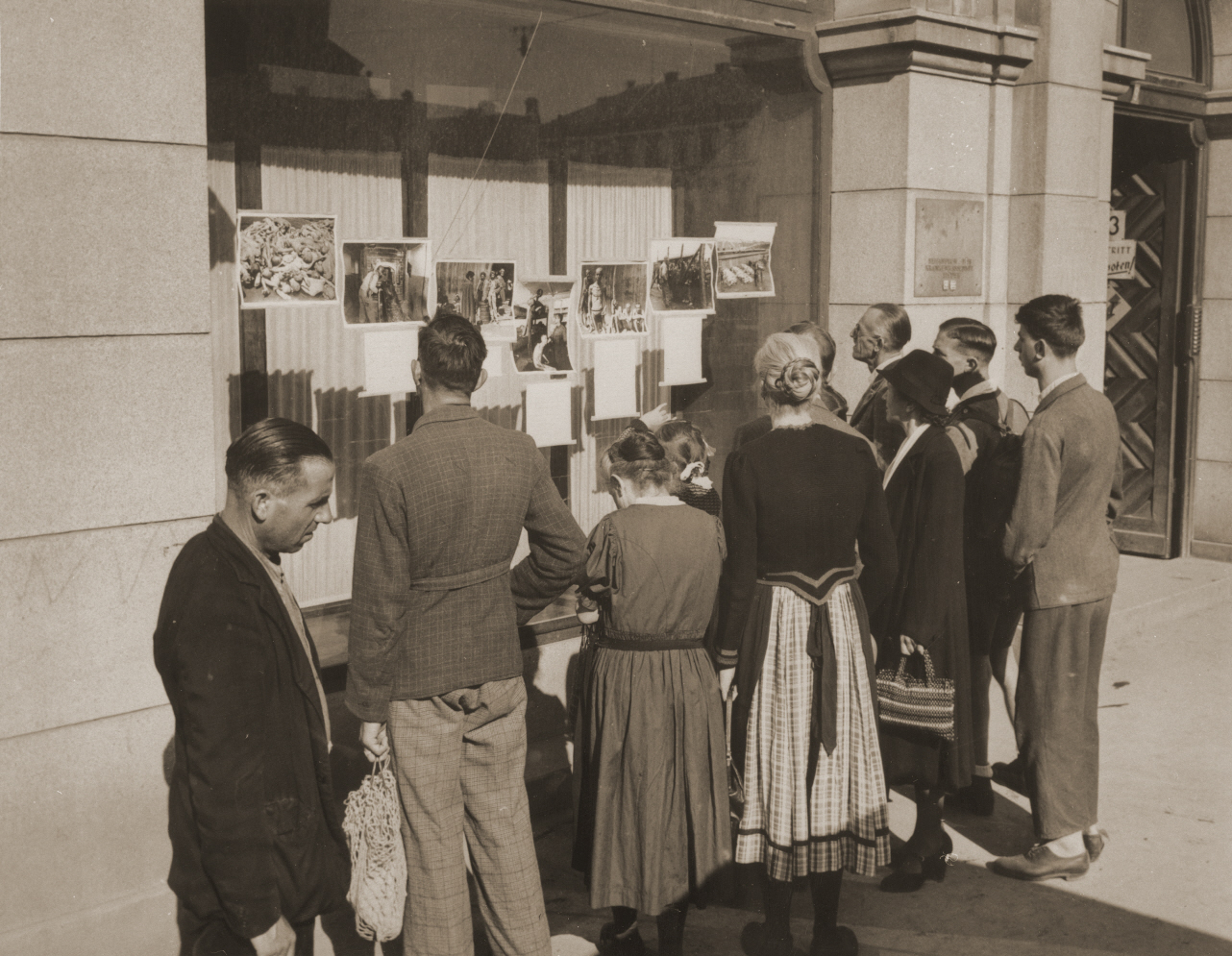 Austrian civilians view a display of photographs mounted in the window of a building in Linz, Austria, showing Nazi atrocities in various concentration camps. The displays were shown in all American held districts of Austria.